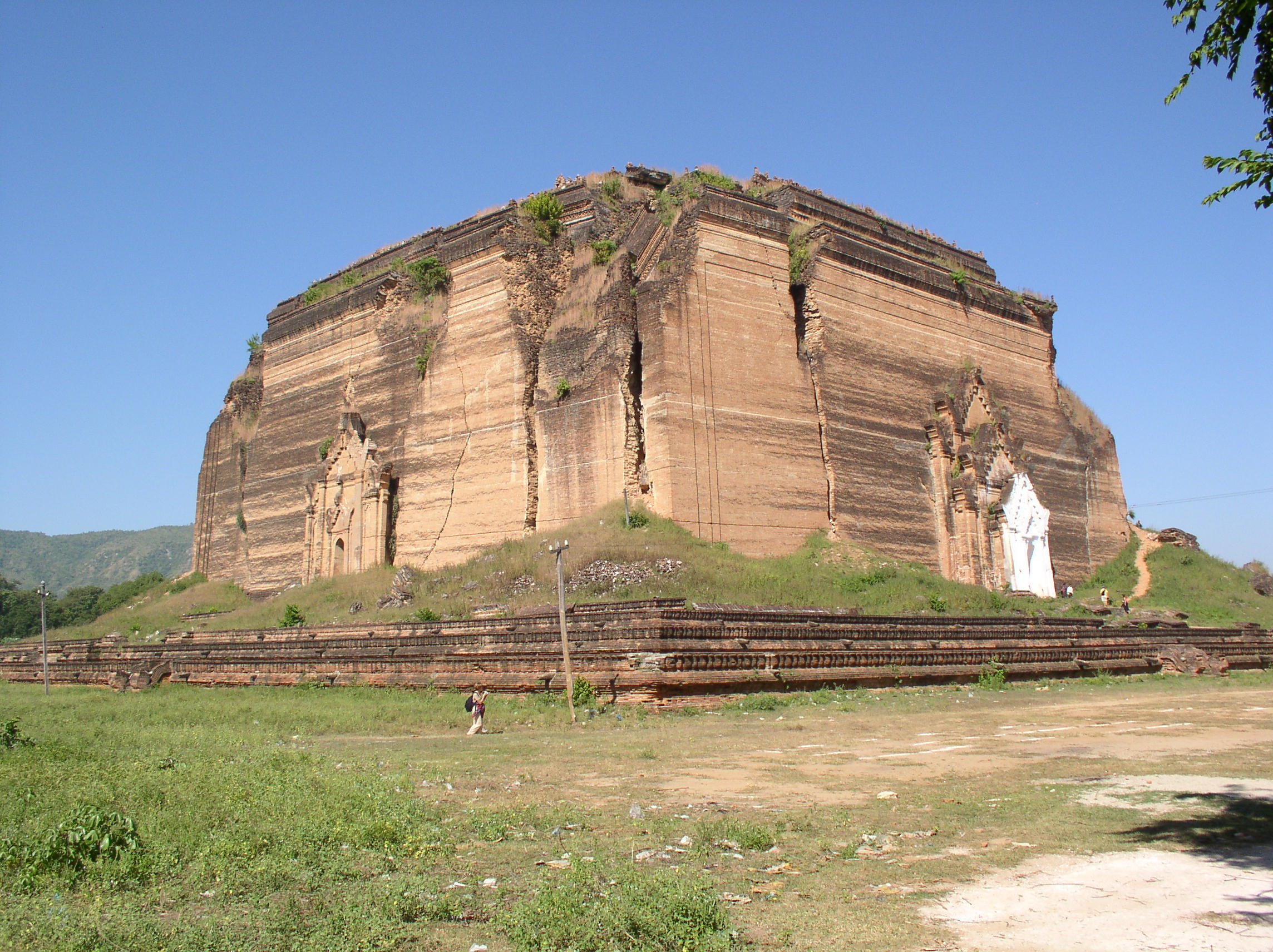 Pagoda Mingun Pahtodawgyi, taken in 2003. Photo of the southwest corner. I, Rich Torres, Burlingame, California, USA took this photo.